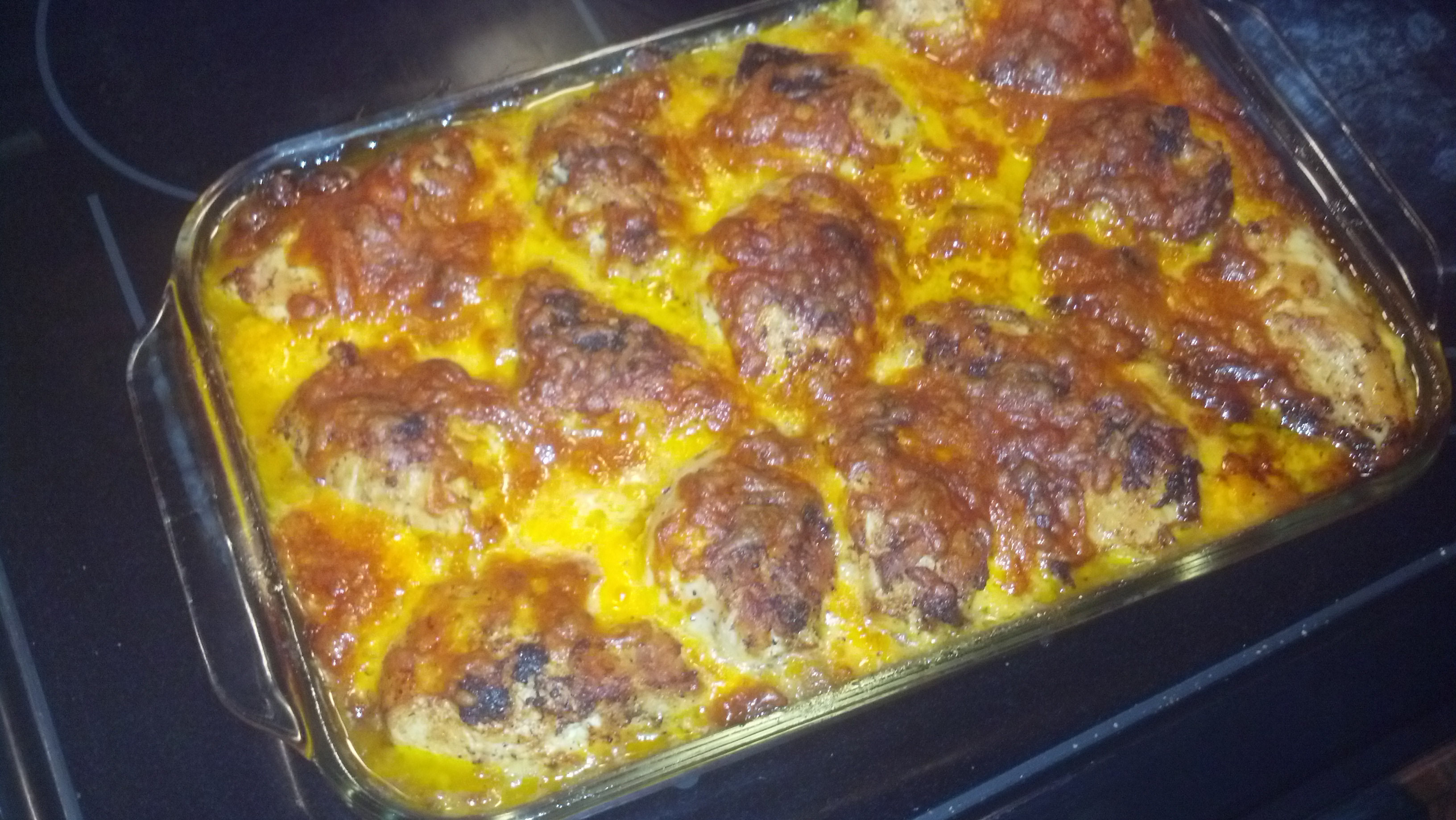 Here's a better angle on the chicken divan. Yes that's melty cheesy.